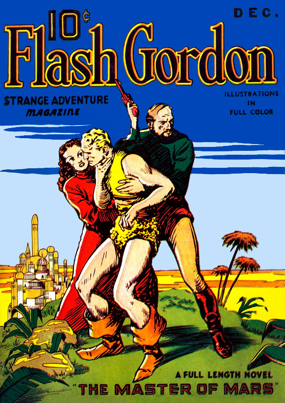 Cover of the December 1936 issue of Flash Gordon Strange Adventures; artist unknown but probably Fred Meagher